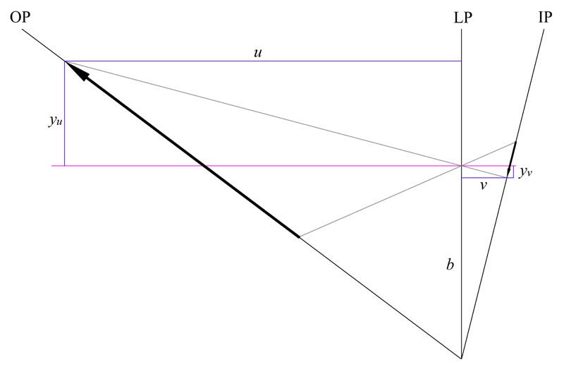 Scheimpflug rule proof.